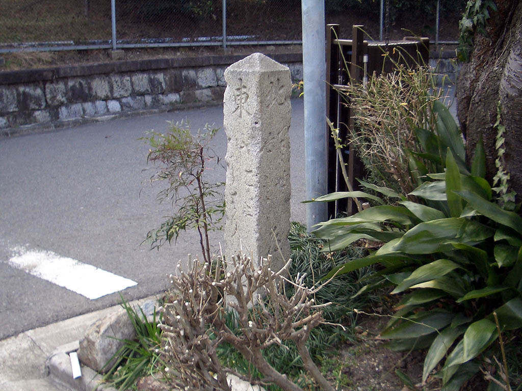 Milestone of Shikannonmichi (Shimokata T, Chikusa-ku, Nagoya)